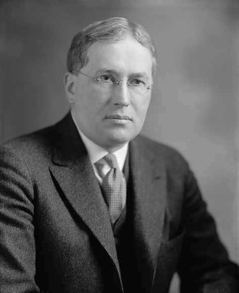 John Taber, U.S. Congressman from New York